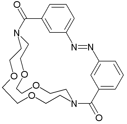 Molecular Switch Shinkay 1980